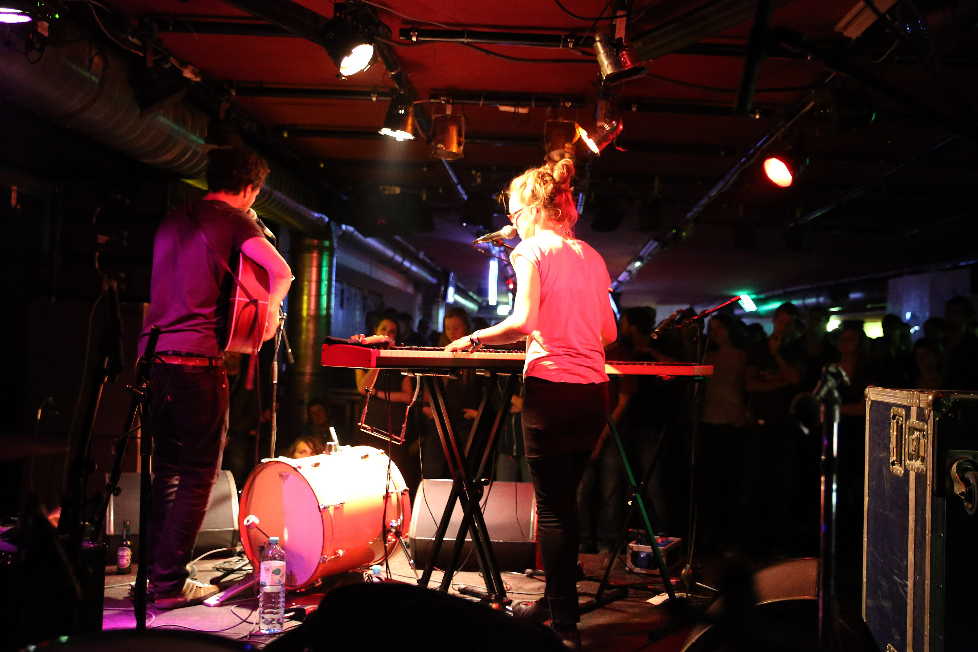 Talking to Turtles - concert at Flex Cafe during Waves Vienna Music Festival & Conference 2012 in Vienna, Austria.